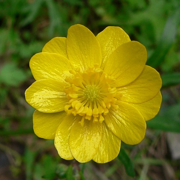 California buttercup (Ranunculus californicus) — taken at Tilden Park, in Berkeley Hills, California.